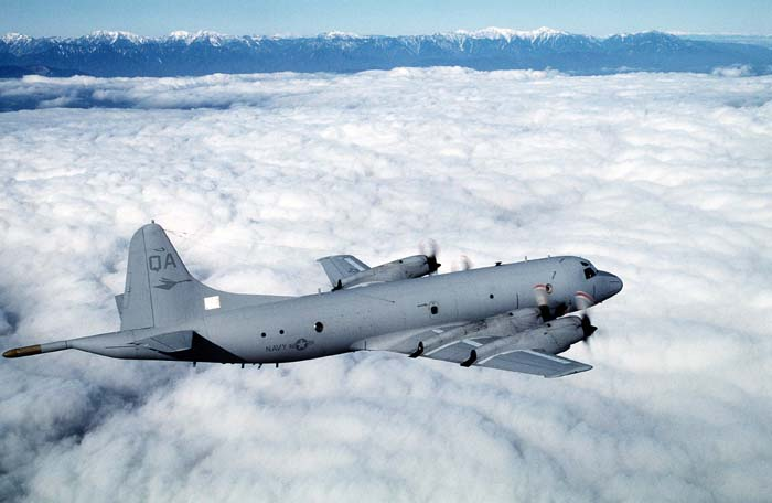 Repository: San Diego Air and Space Museum Archive